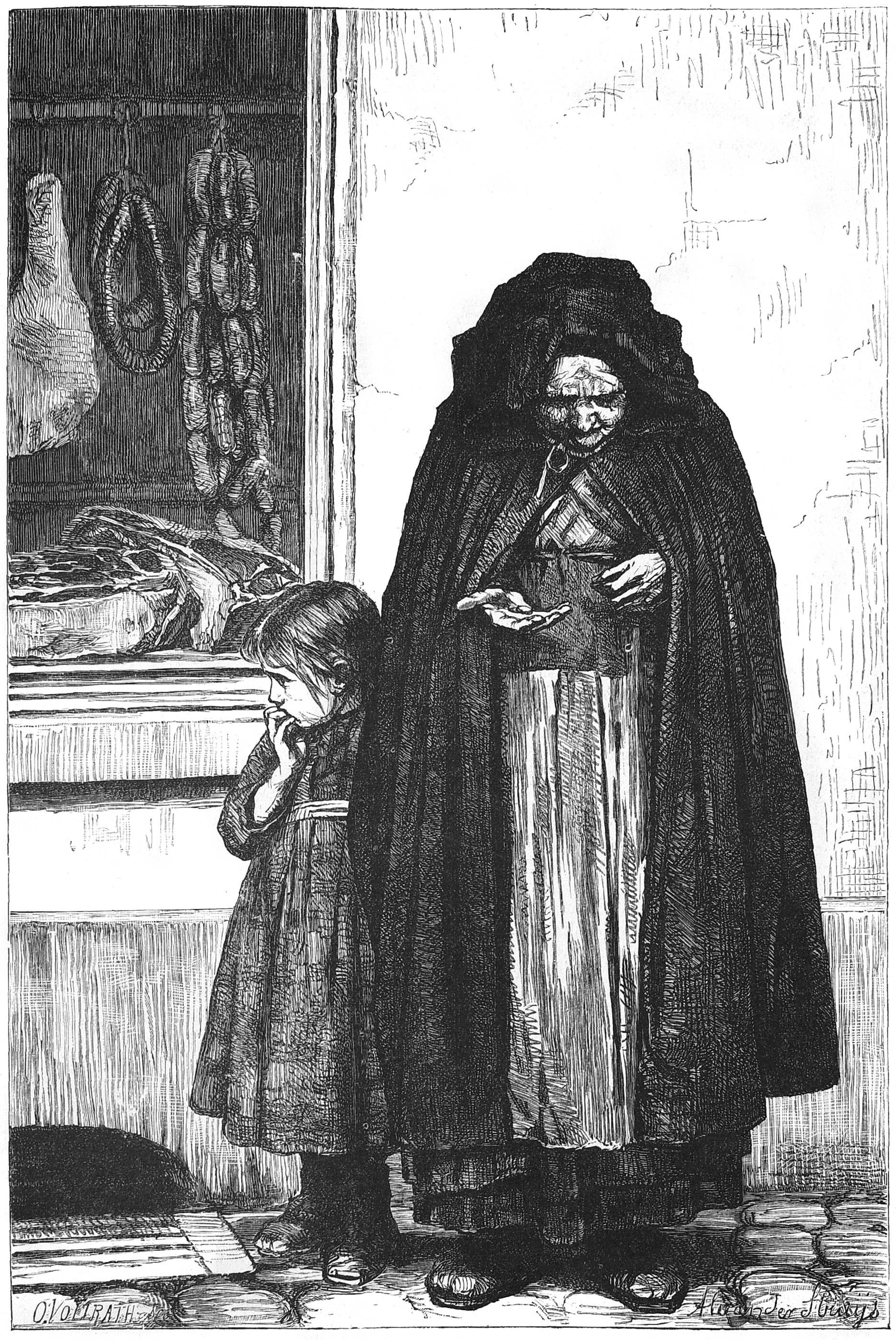 caption: "„Es reicht nicht !“ Nach dem Gemälde von Prof. Struys in Weimar."